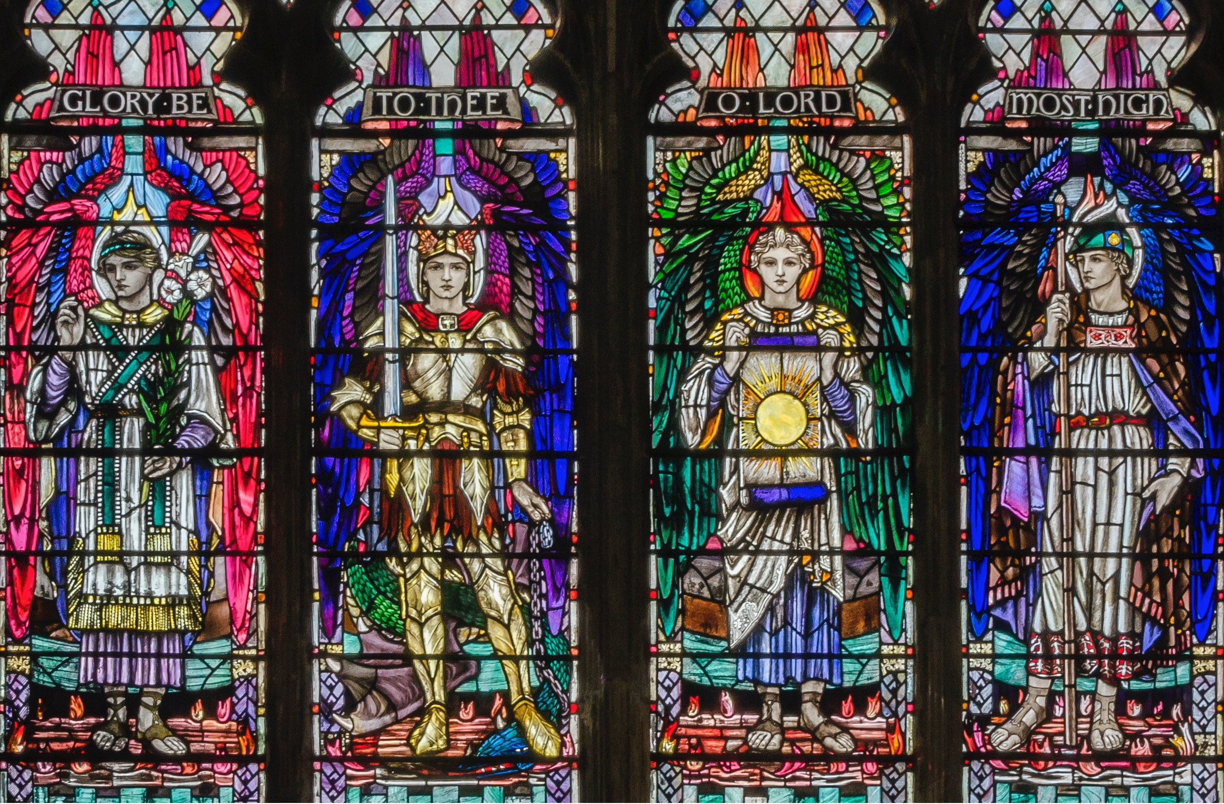 Stained glass depicting the four archangels, from left to right: Gabriel, Michael, Uriel and Raphael. Holy Trinity Church, Kingston upon Hull, East Yorkshire, UK.